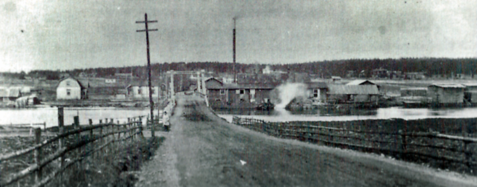 Jokipii bridge with Valakiamylly flour mill and sawmill on the right, by river Jalasjoki in Jalasjärvi, Finland, circa 1920s